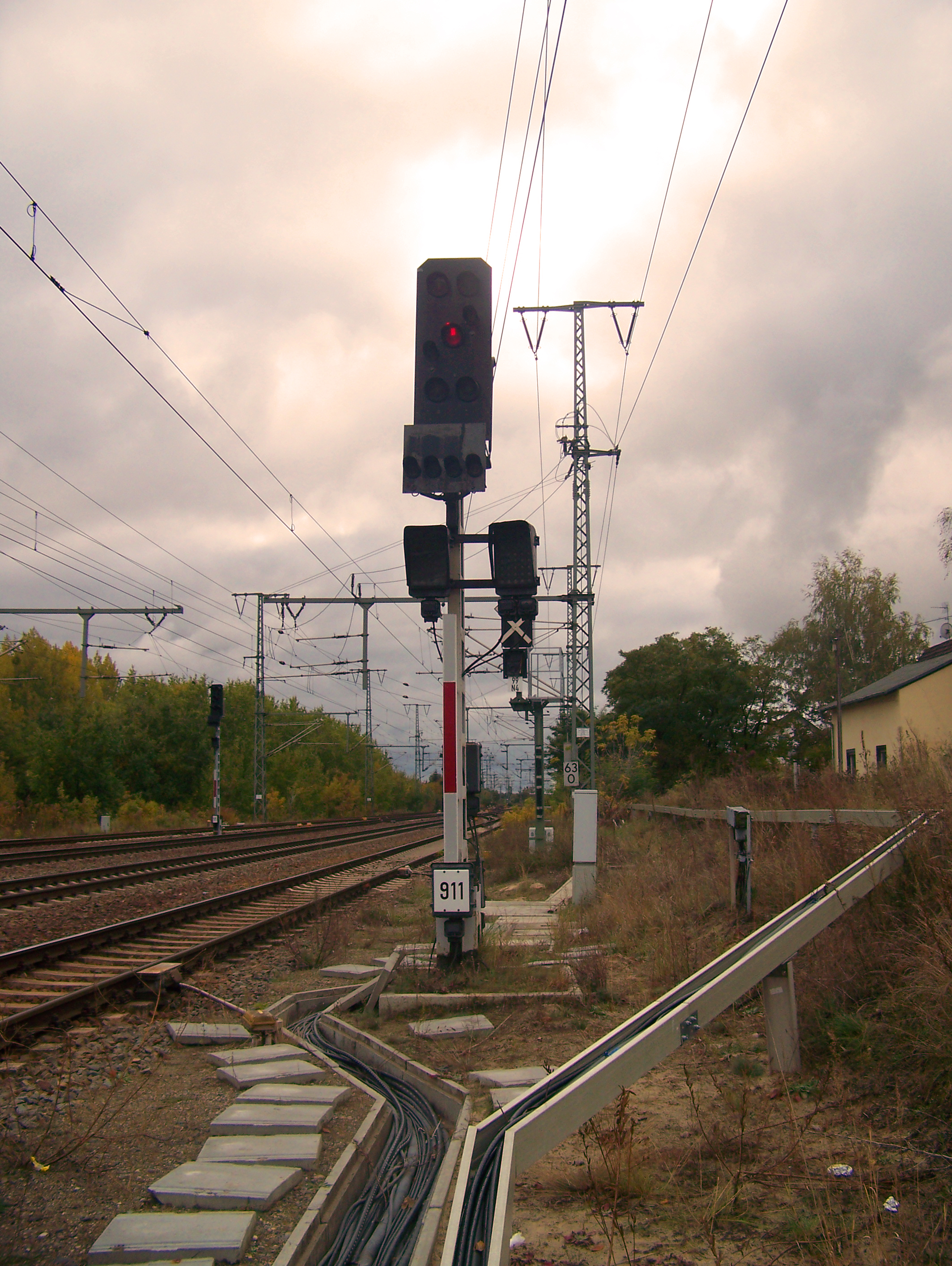 exit signal at the station of Golm, near Potsdam and Berlin, Germany